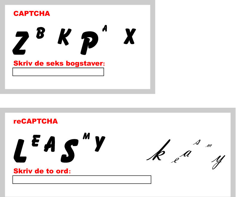 Antihacker and digitisation system (danish text)